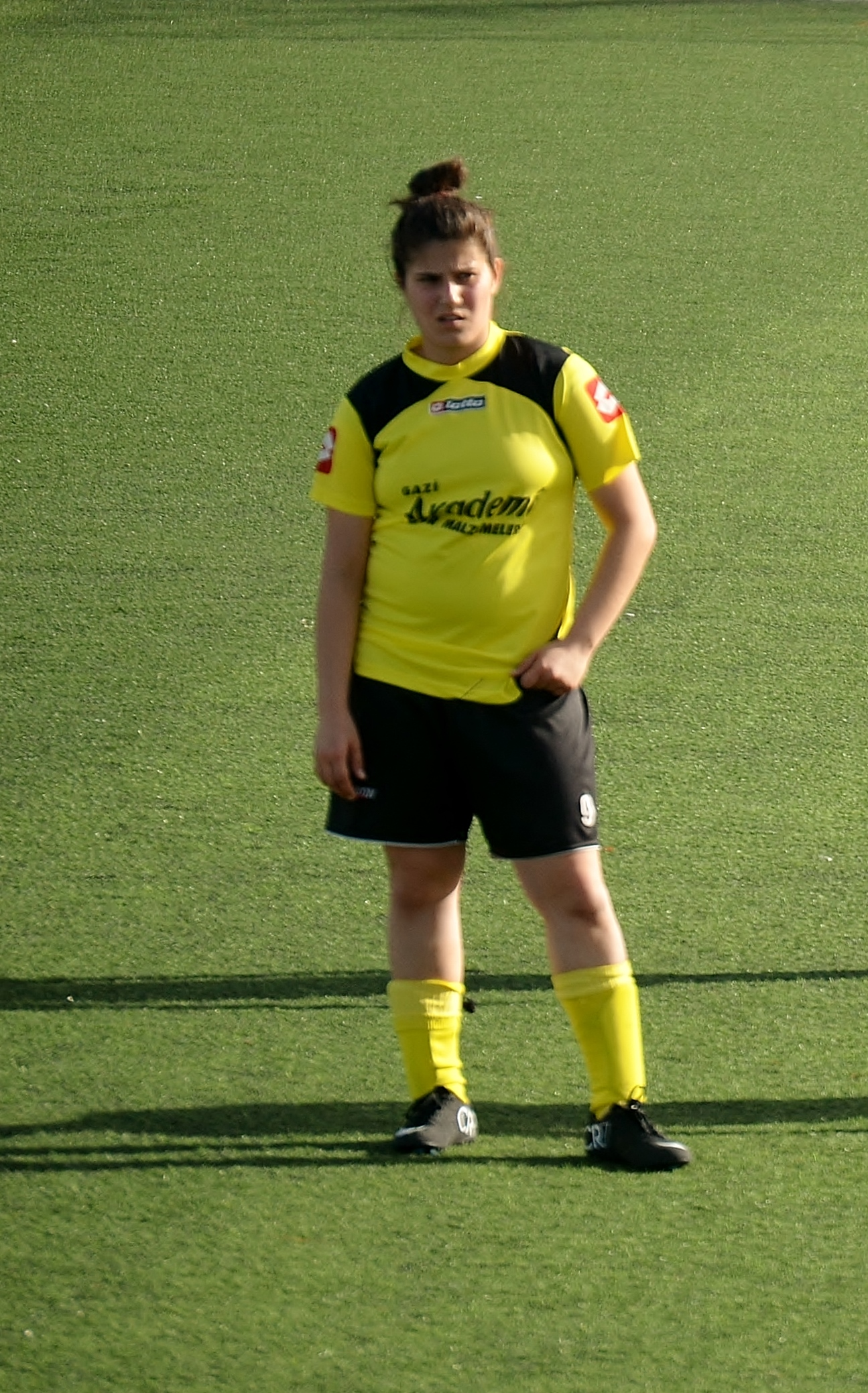 Merve Akıl playing for Gazikentspor in the 2014-15 season